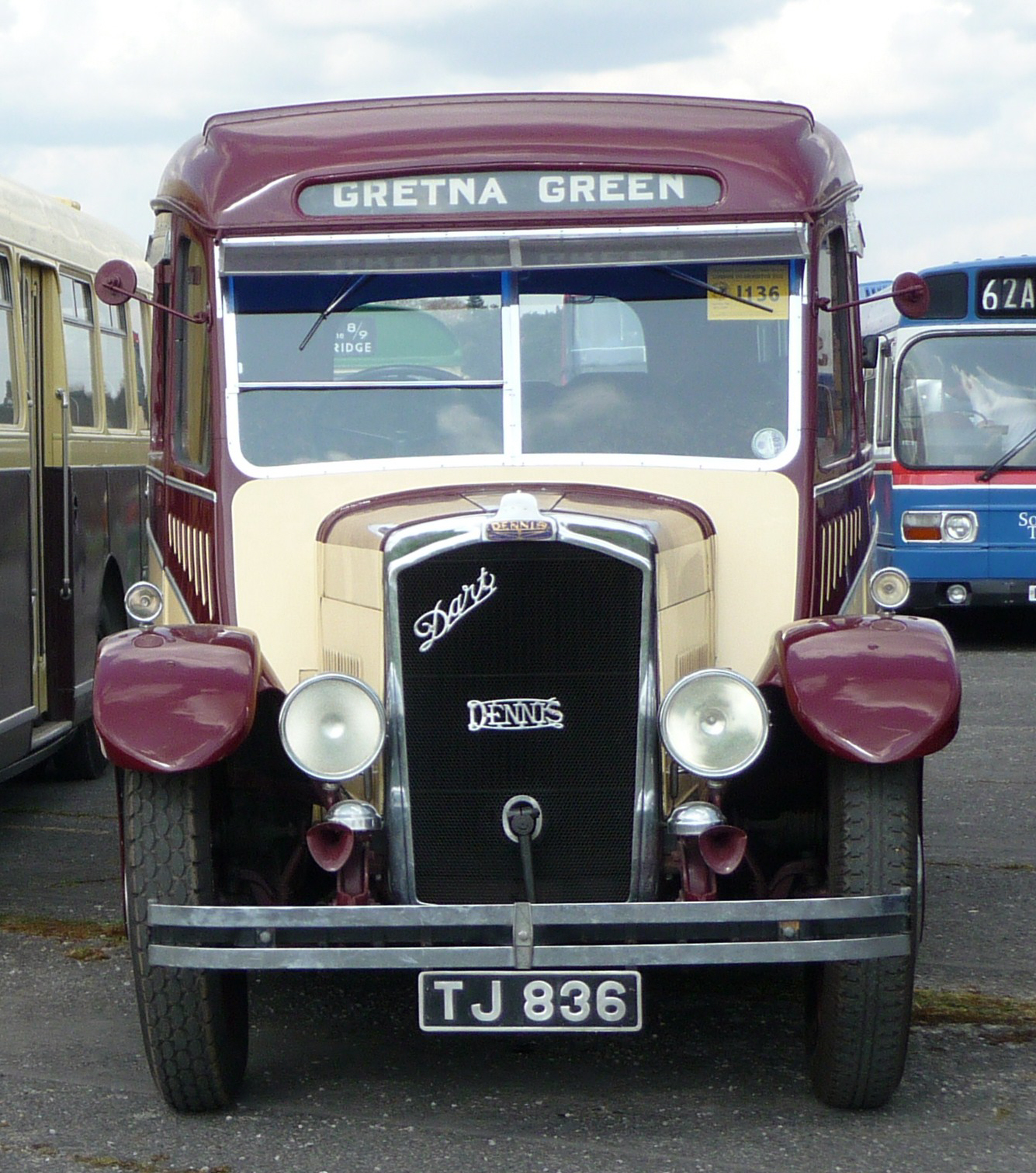 Preserved Alexander Dennis TJ 836, a 1933 Dennis Dart new to Entwhistle of Morecambe, pictured at the 2009 Cobham bus rally at Wisley Airfield. It is now owned by the maker's sucessors.